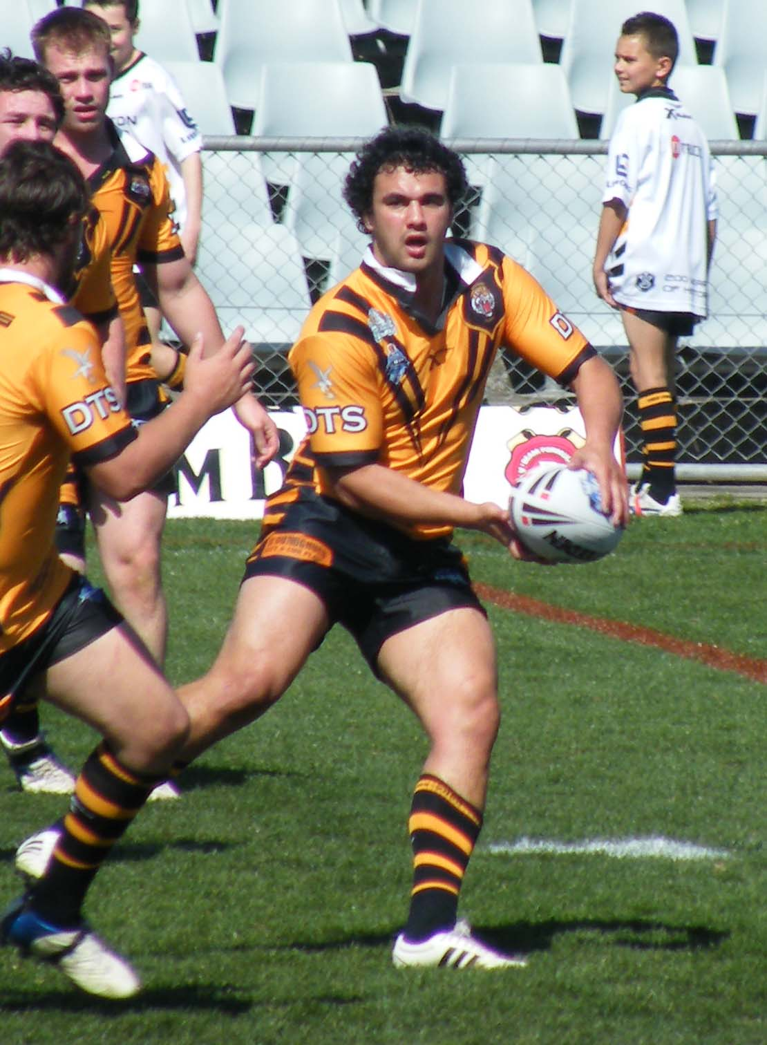 Balmain Lock forward